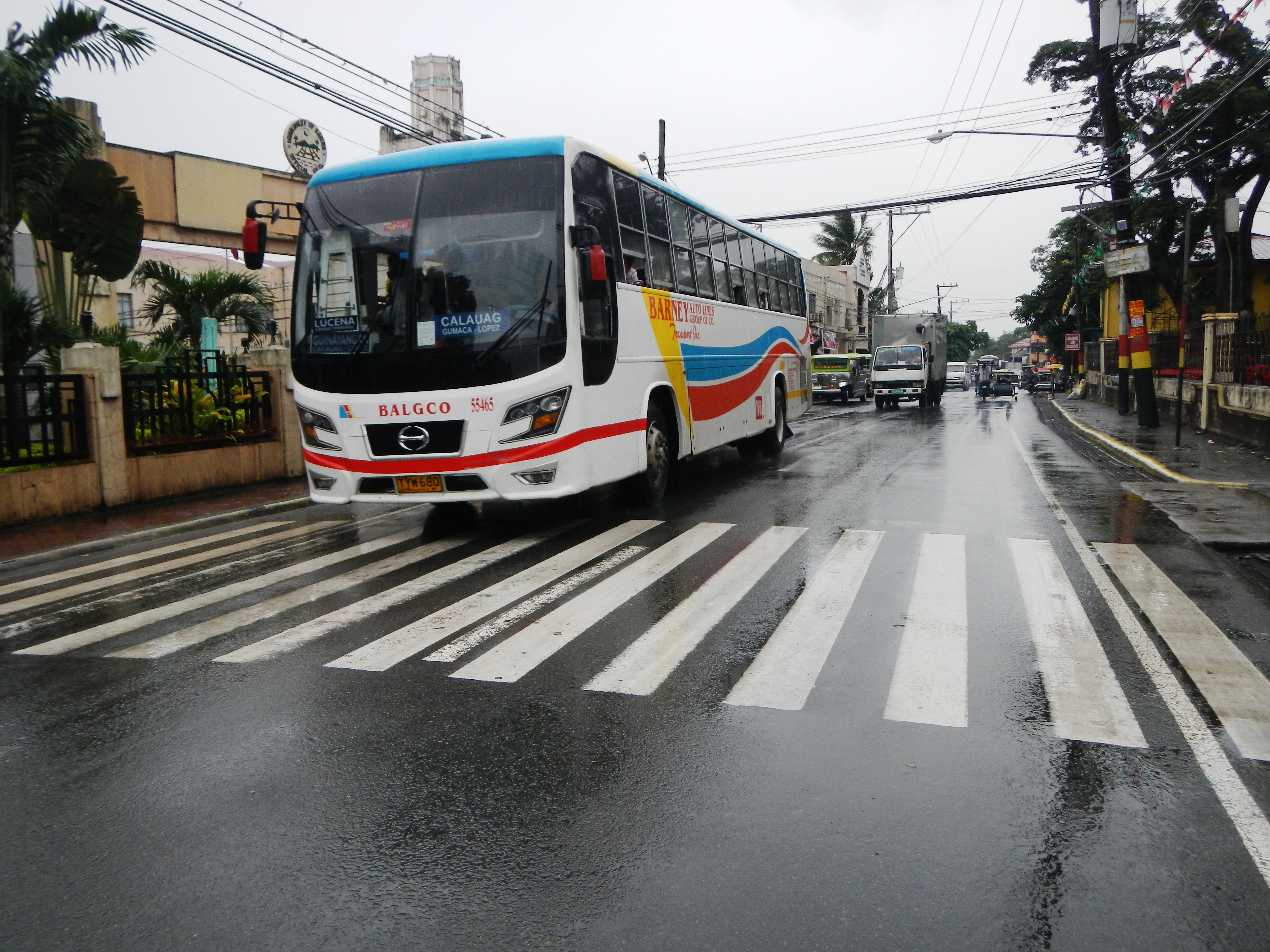 Upload Wizard -- (general description of landmarkds, town, church) - of - Town Proper, Centro, downtown, Highway, and the -1599 Saint Francis of Assisi Parish Church of Sariaya, Quezon [1] - Feat October 4, Concepcion, Sariaya 4322 Quezon belongs to the Roman Catholic Diocese of Lucena [2] [3] Sariaya’s Santissimo Cristo de Burgos Museo ng Debosyon at Buhay[4] church was built in 1599, in 1965, replaced in 1641and finally re-built in 1748 located in Sariaya town proper.[5] [6][7] Church Architecture [8] [9] [10] Episcopal District of Saint Mark Vicariate of Saint Philip - Sariaya, Quezon [11] ([12] Region: CALABARZON (Region IV-A) 2nd district of Quezon Founded: October 4, 1599 (Castanas) Barangays: 43 Area 239.8 km2 (92.6 sq mi) a first class municipality in the province of Quezon, Philippines famous for beaches, resorts, heritage houses, and hiking activities Coordinates: 13°56'31"N 121°30'9"E).[13].